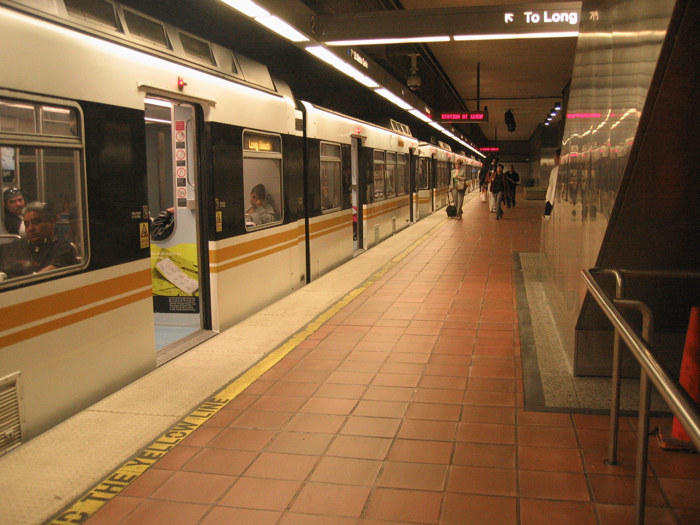 7th Street/Metro Center Station of the LA Metro Rail's Red Line. Los Angeles, CA, USA.